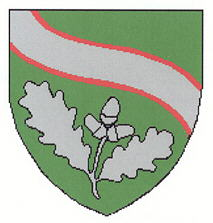 Coat of arms of Kaltenleutgeben, Lower Austria